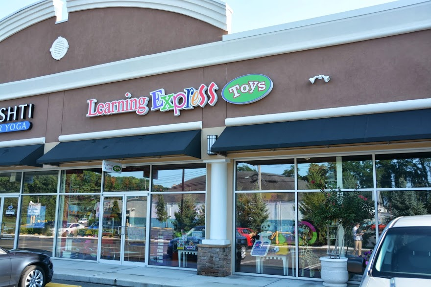 Exterior photo of the Learning Express Toys of Sea Girt taken Aug 2, 2013